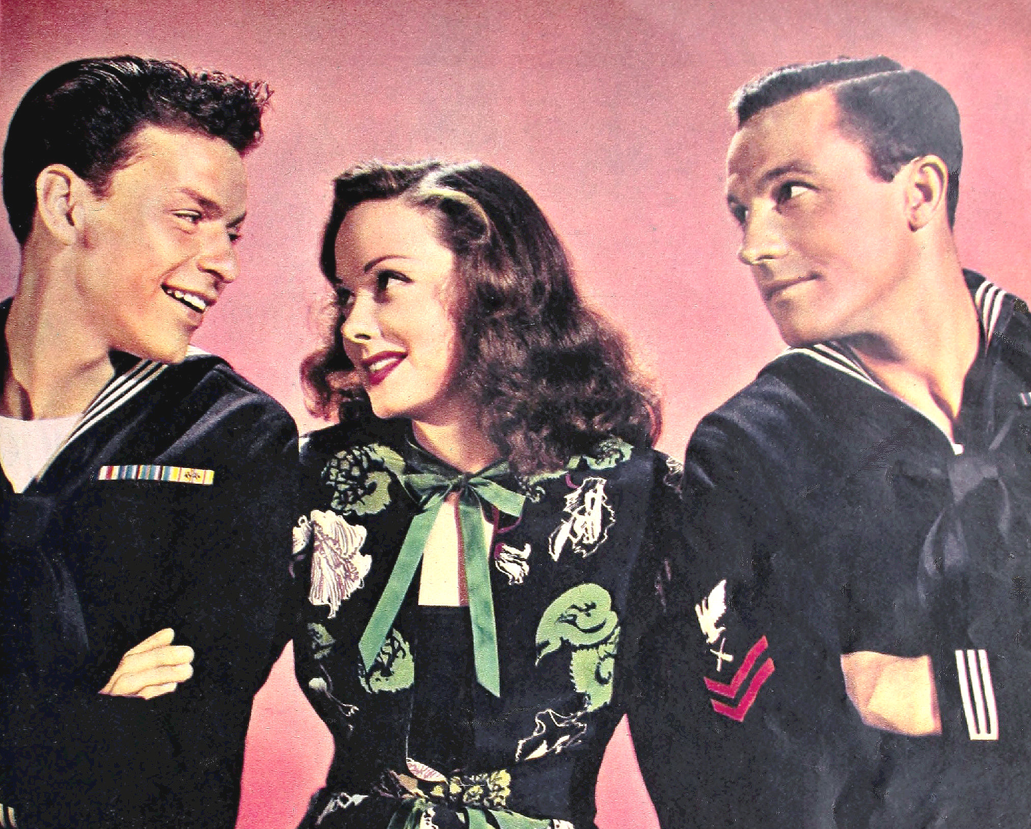 Photo of Frank Sinatra, Kathryn Grayson, and Gene Kelly from Anchors Aweigh (1945).